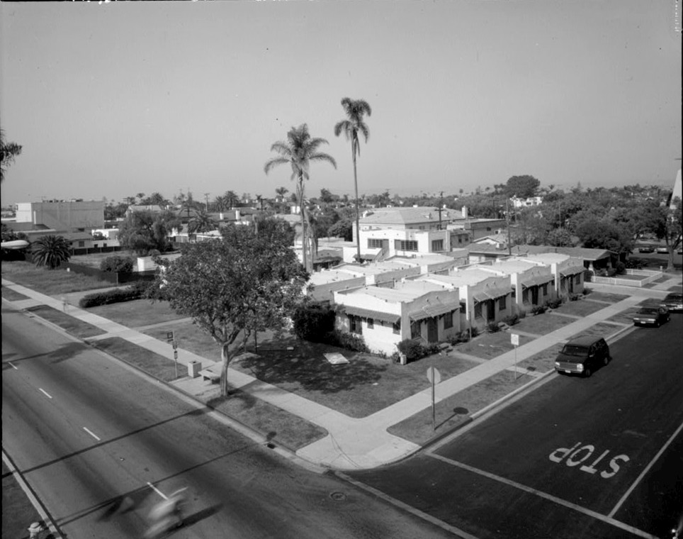 Heilman Villas — site overview from raised point at corner of Orange Avenue and Seventh Street, camera facing west. Spanish Colonial Revival style cottages at 706-720 Orange Avenue & 1060-1090 Seventh Street, Coronado, San Diego County, CA; Alternate Title: Babcock Court; Building/structure dates: 1922 initial construction. Historic American Buildings Survey—HABS image.